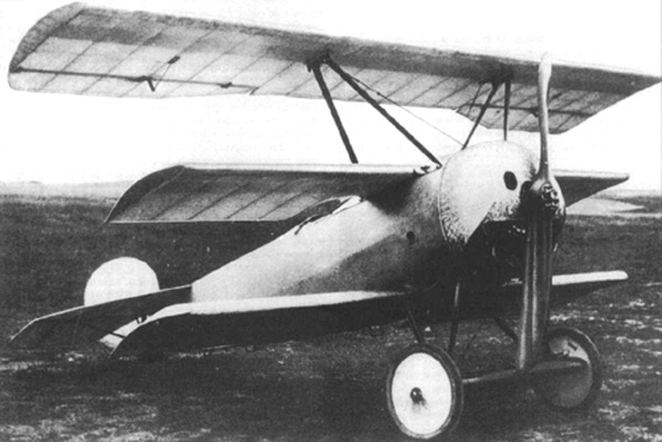 Triplane